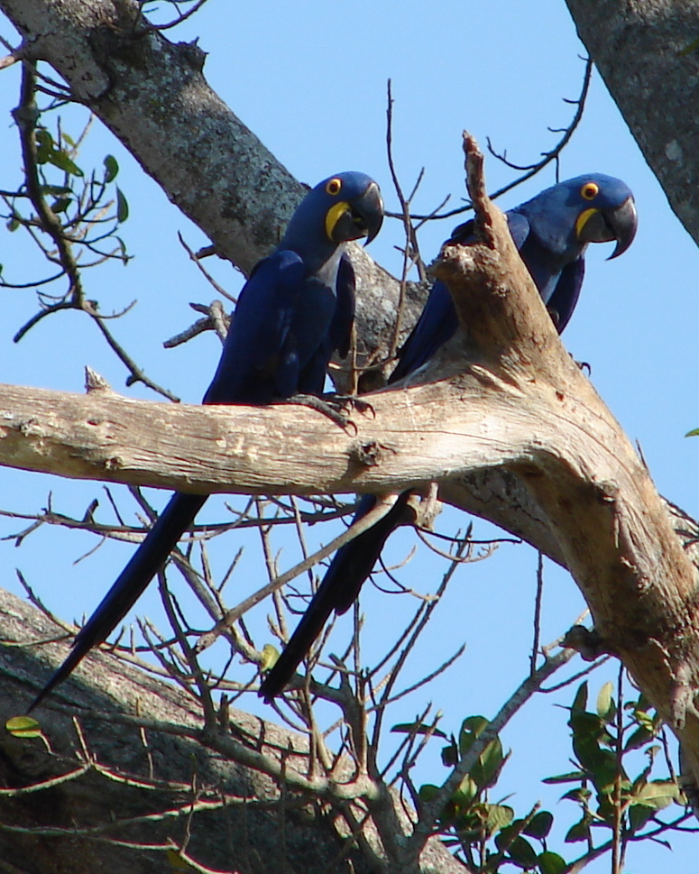 Hyacinth Macaw in the Brazilian Pantanal. This pair was traveling with a juvenile.